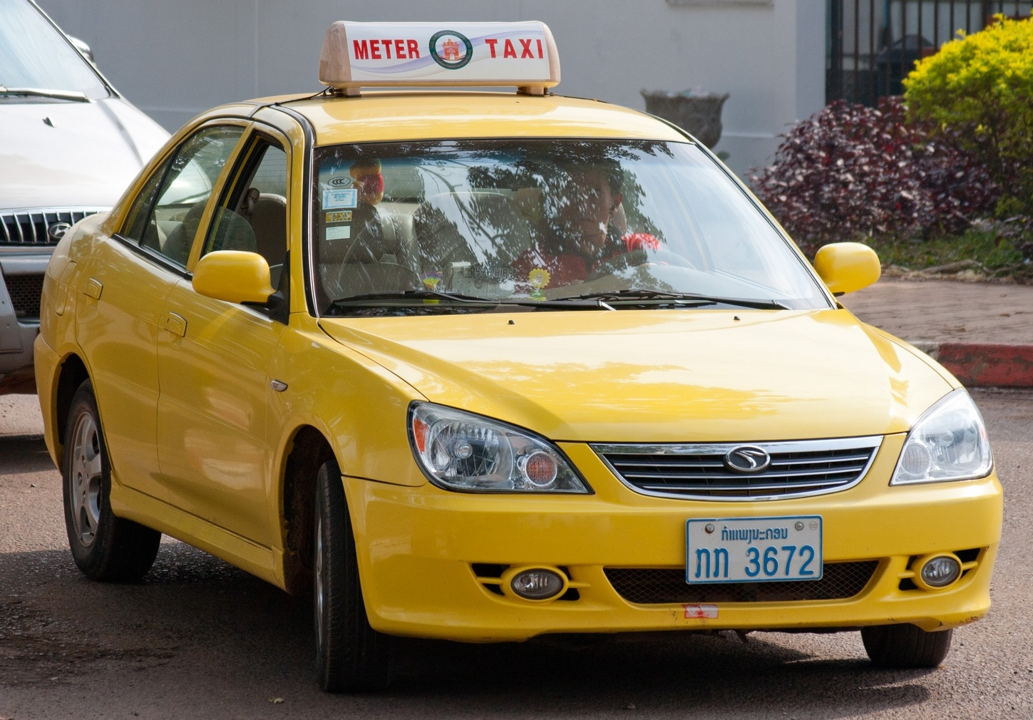 Taxi in Vientiane, Laos (Soueast Lioncel)